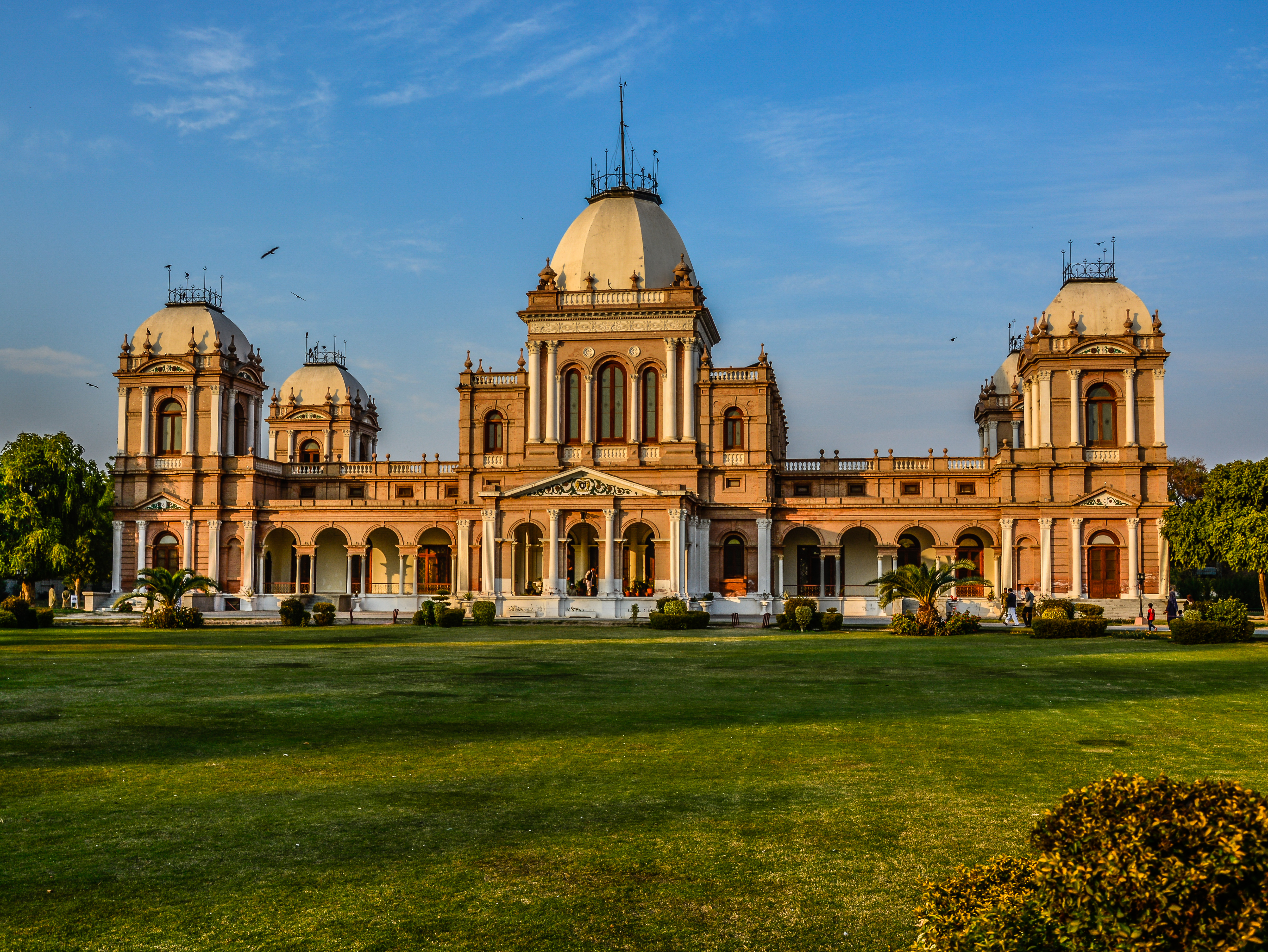 Noor Mahal This is a photo of a monument in Pakistan identified as the PB-U-4